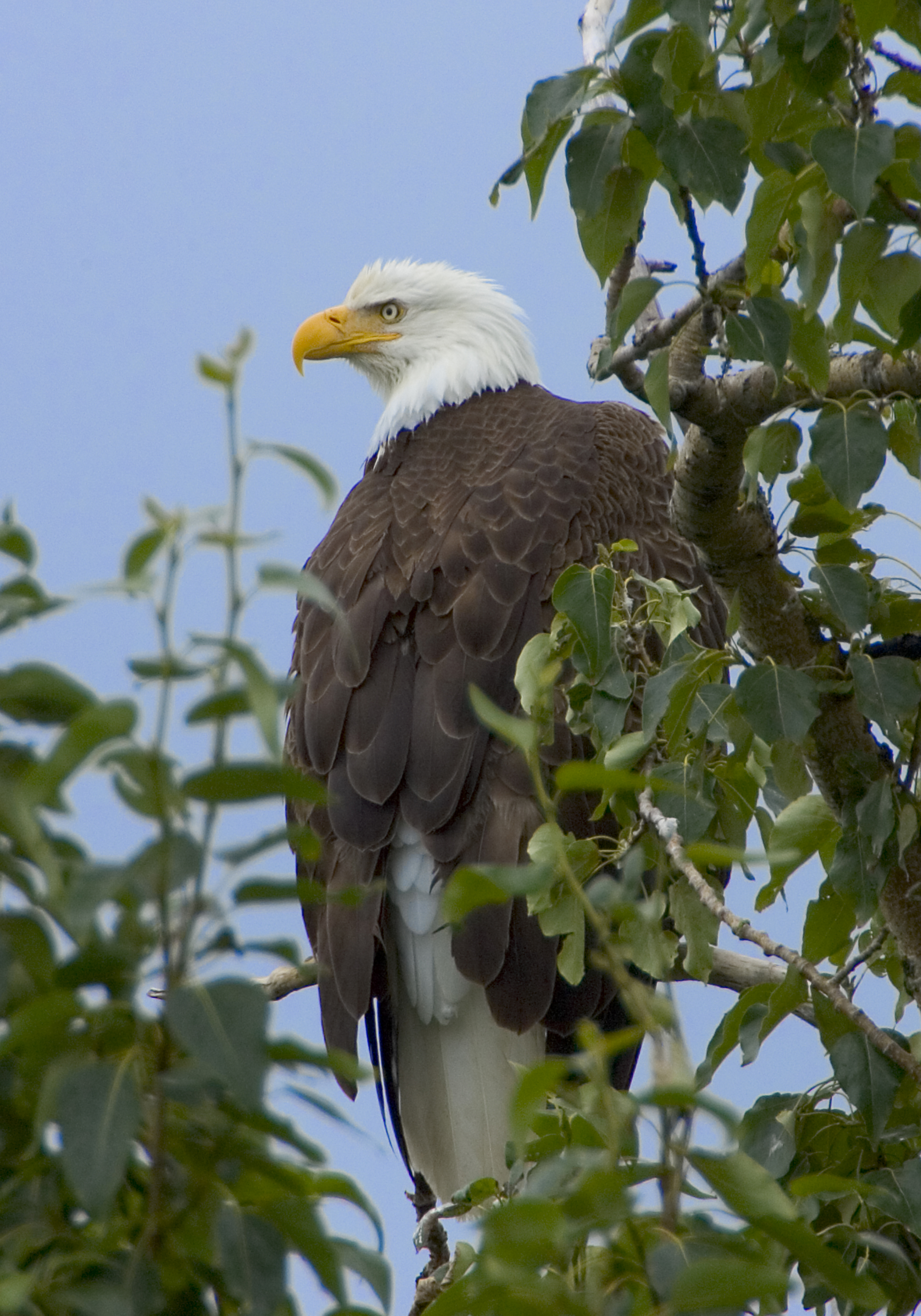 Bald Eagle (Haliaeetus leucocephalus), Kodiak National Wildlife Refuge